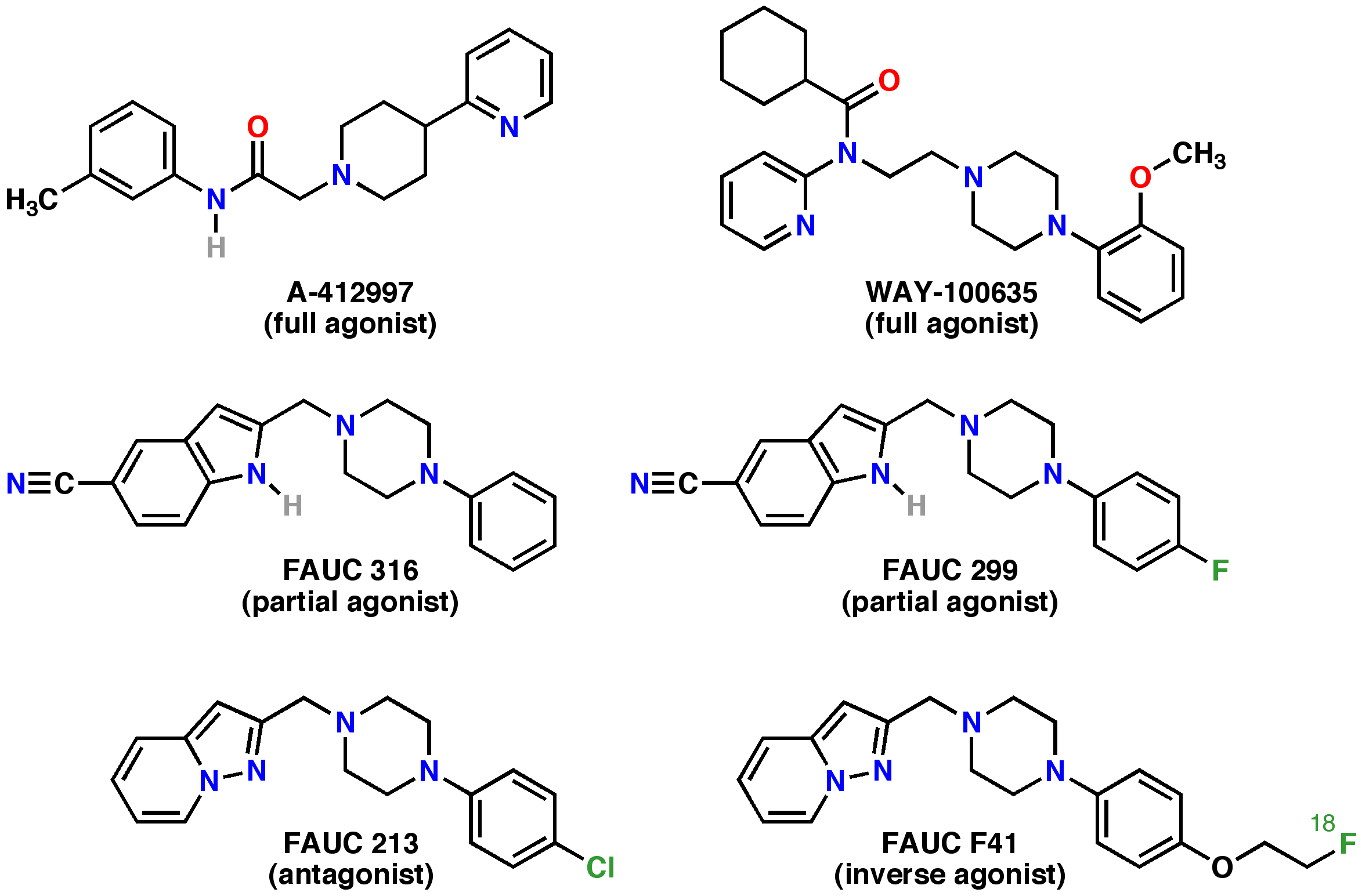 Created myself using ChemDraw.